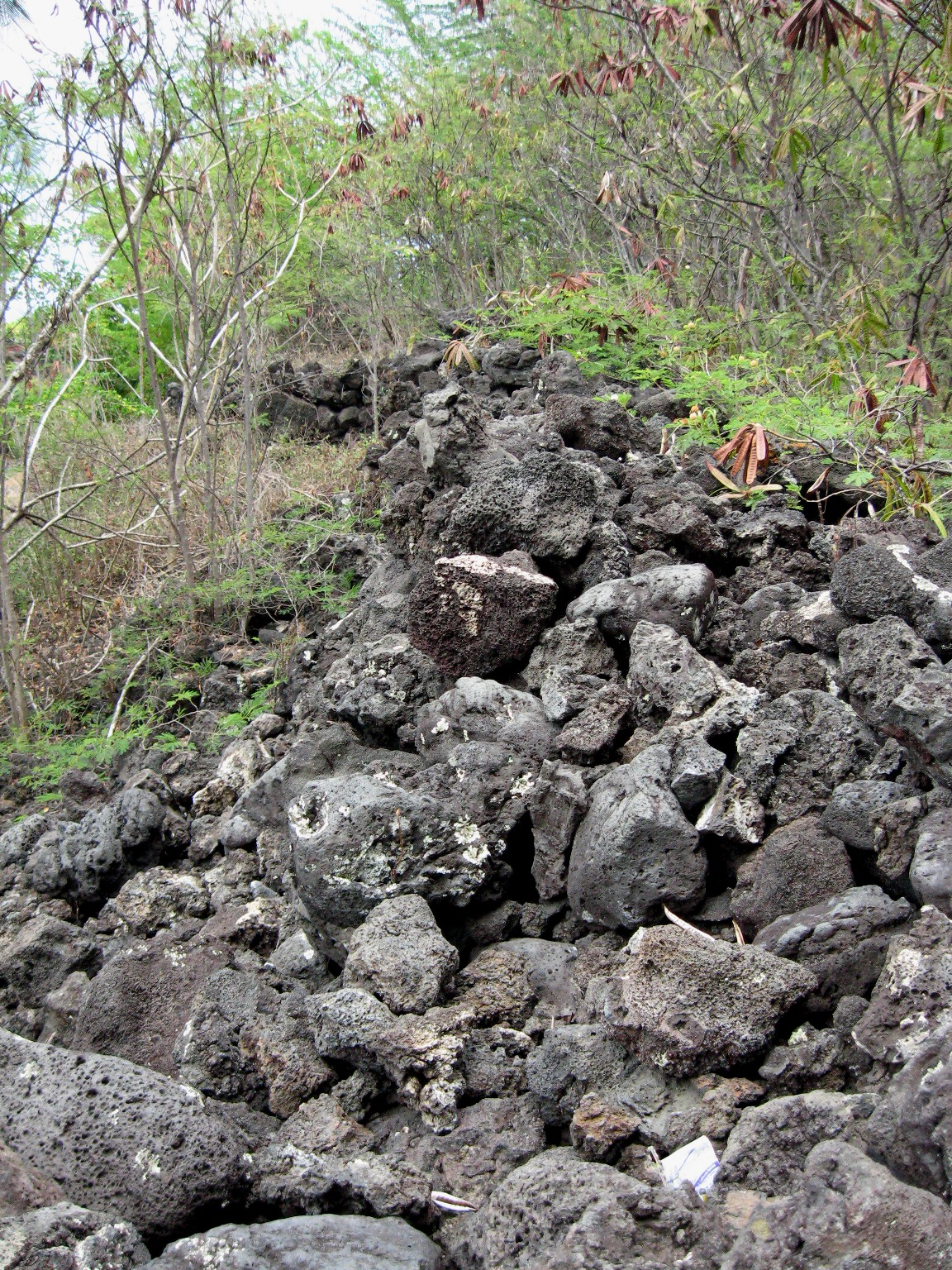 The massive stone walls of the ruins of the Holualoa Bay royal complex at Kamoa Point, Kona, Hawaii, are now mostly overgrown.